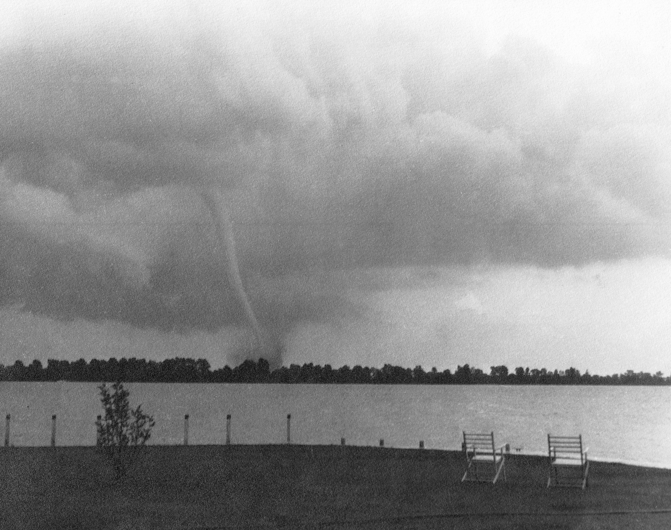 The Windsor–Tecumseh Tornado of 1946 photographed by Harry G. Garland from Garland's Seaplane Base looking out over the Detroit River towards Peche Isle.